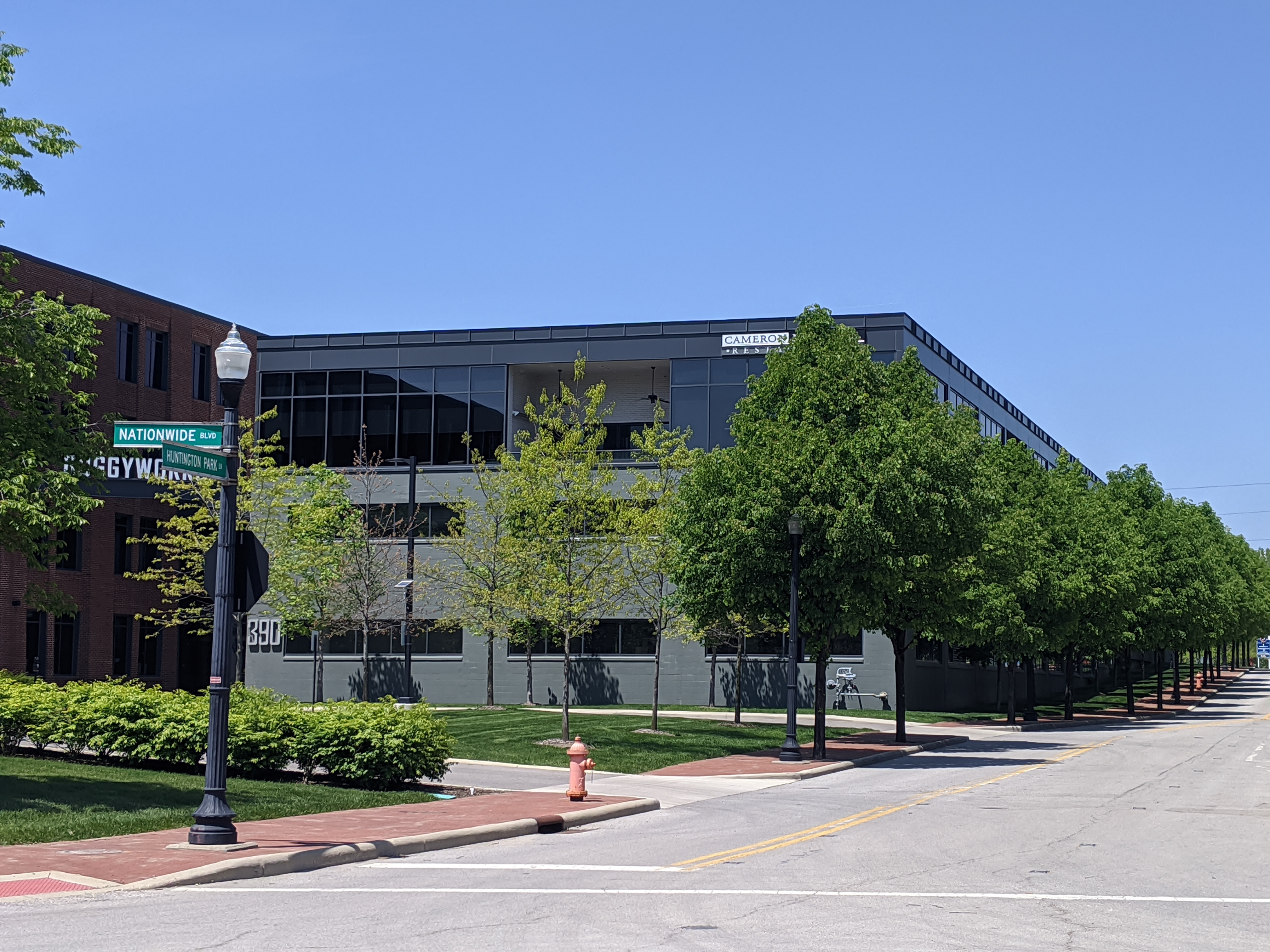 In the Arena District, Columbus, Ohio.